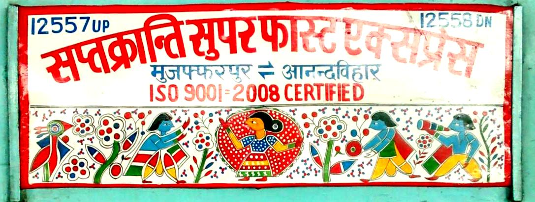 Sapt Kranti Express from ANVT to MFP Nameplate